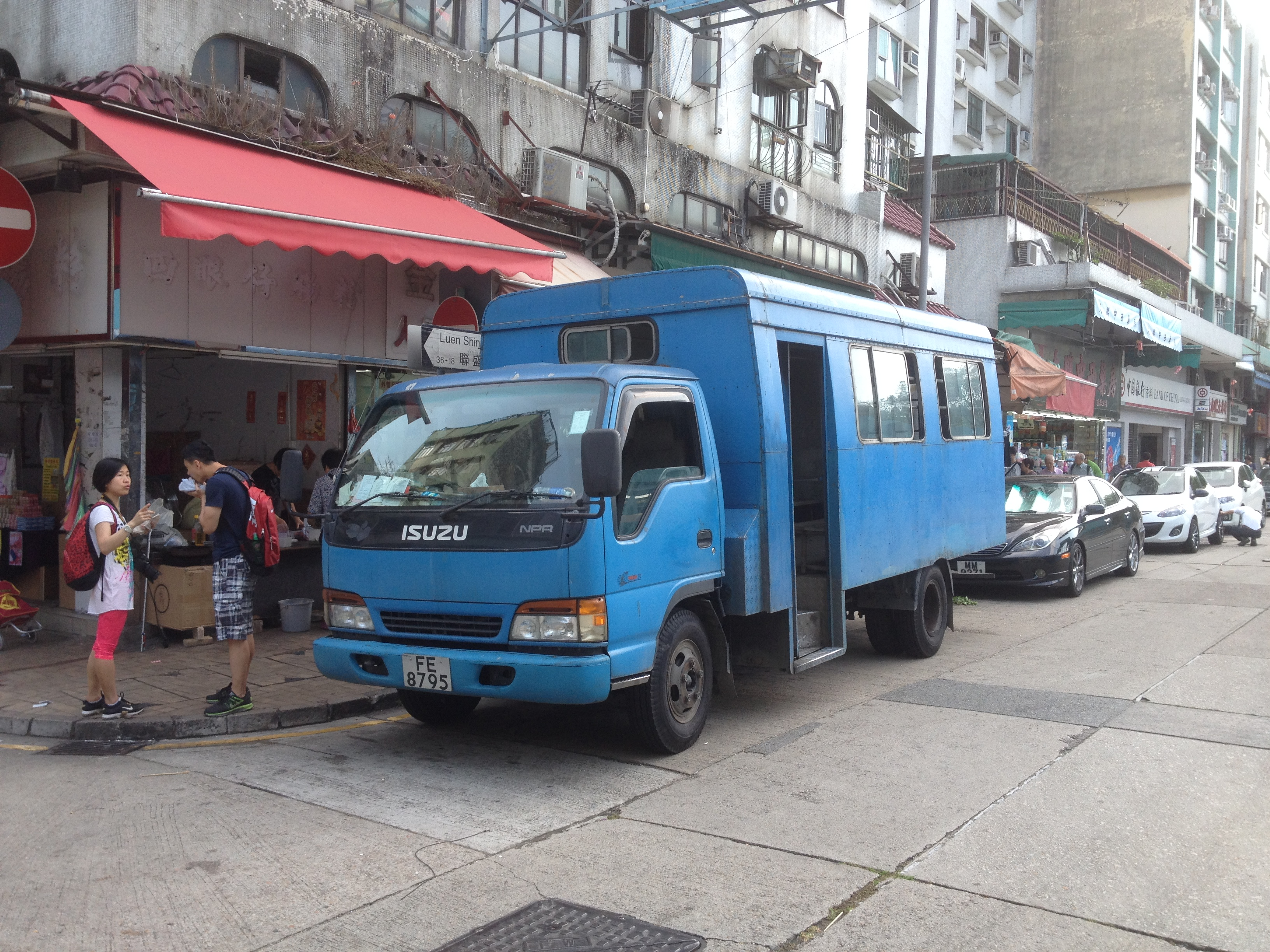 This photo is taken in Fanling.